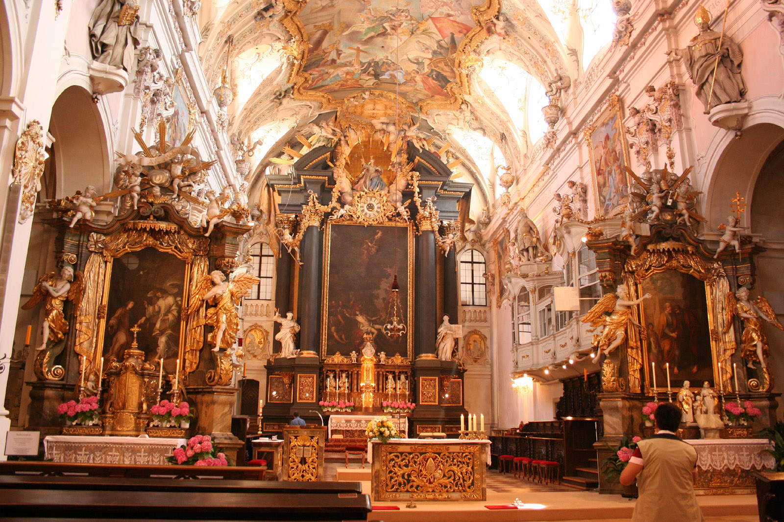 A view of High Altar and Apsis in the St. Emmeram Basilika, Regensburg, Bavaria, Germany